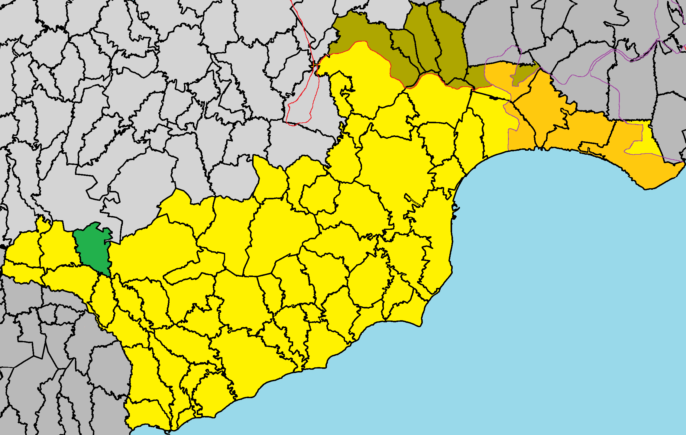 Vavatsinia in Larnaca District.